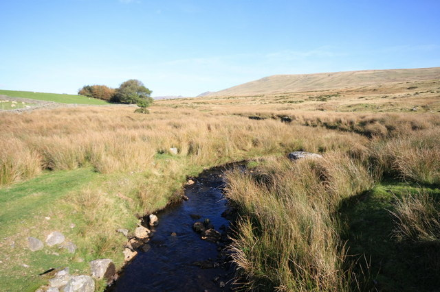 River Annas More a small stream here, running off Charles Ground, on the flanks of Corney Fell